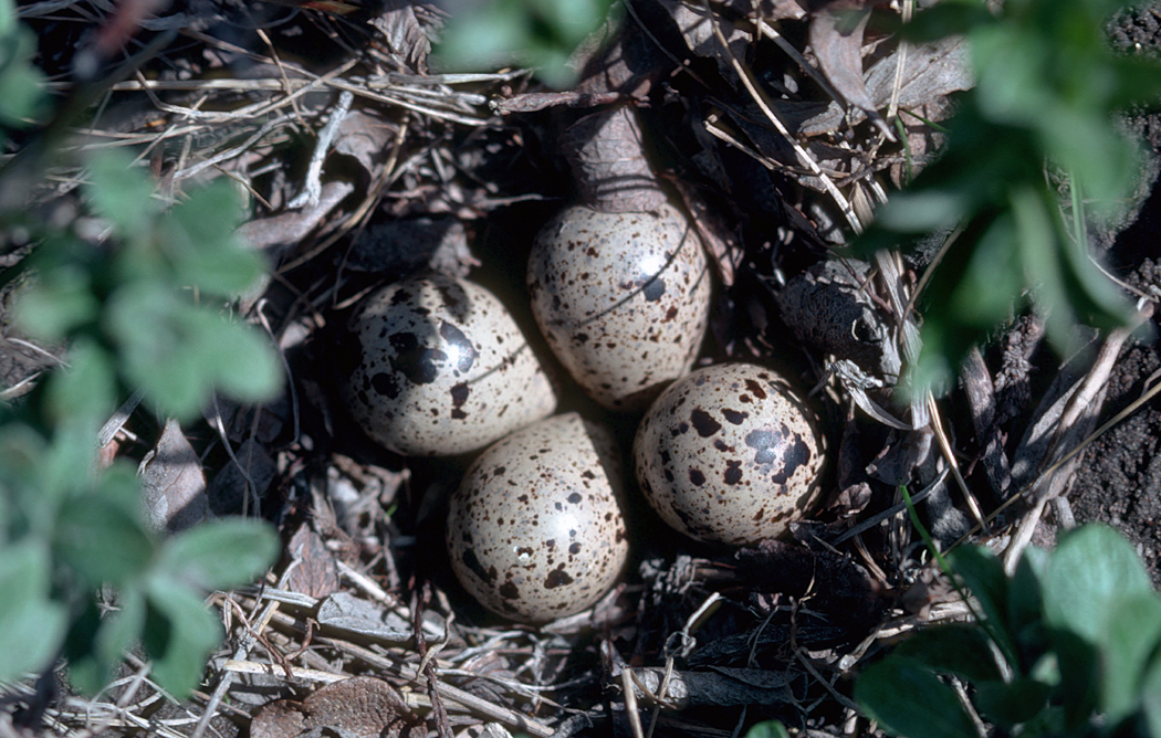 Baird's Sandpiper (Calidris bairdii) Nest with Eggs SL-01799